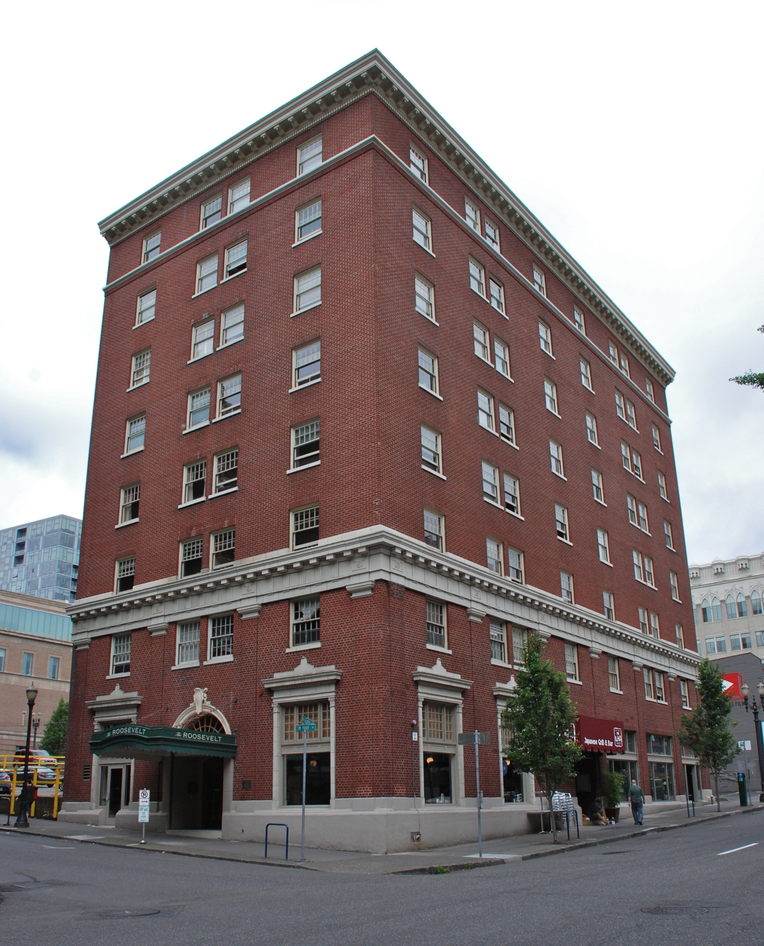 The Roosevelt Hotel building, a former hotel, now condominiums, in Portland, Oregon. It was built in 1924. More images